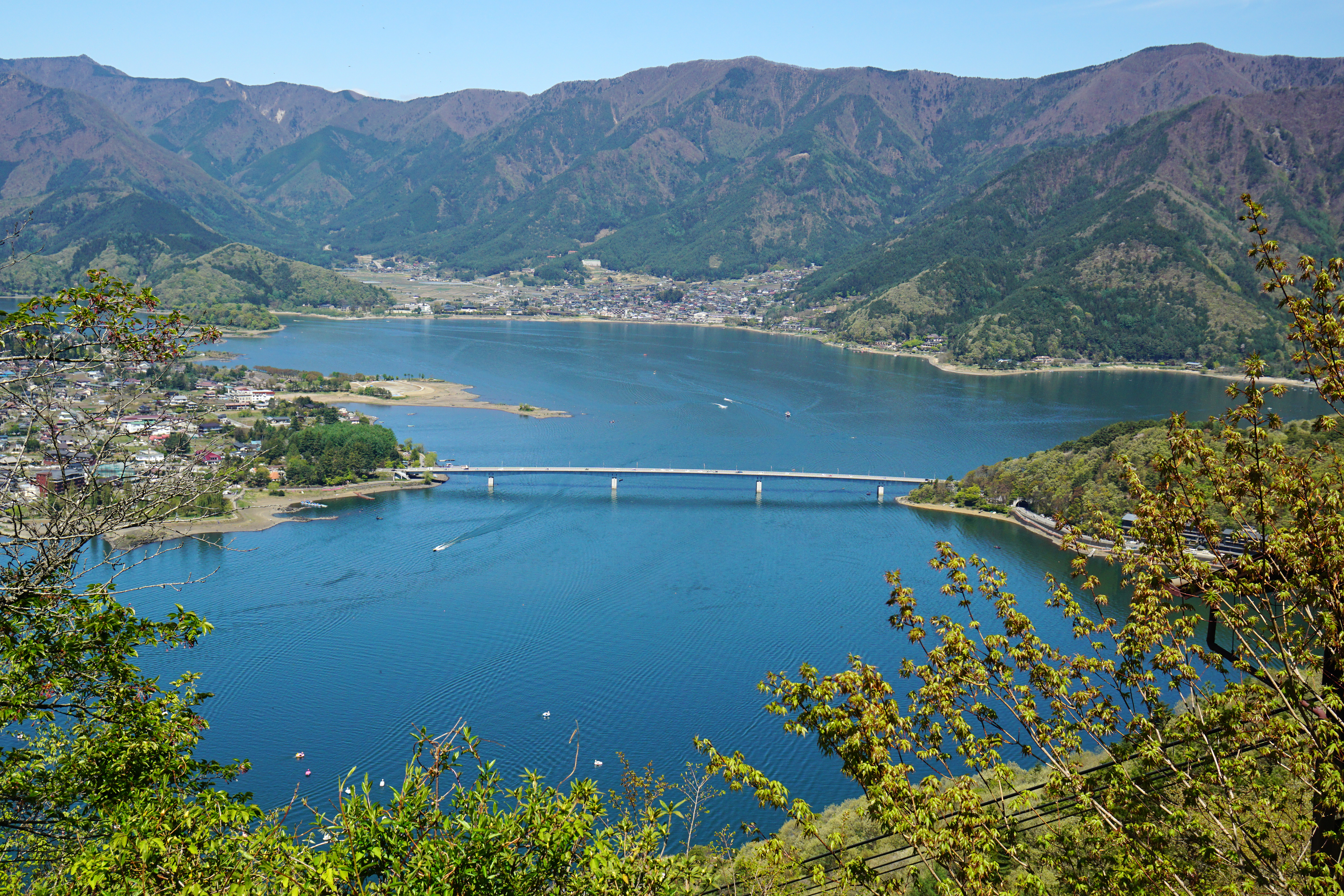 Kawaguchiko Bridge on Lake Kawaguchi in Kawaguchiko, Yamanashi Prefecture, Japan